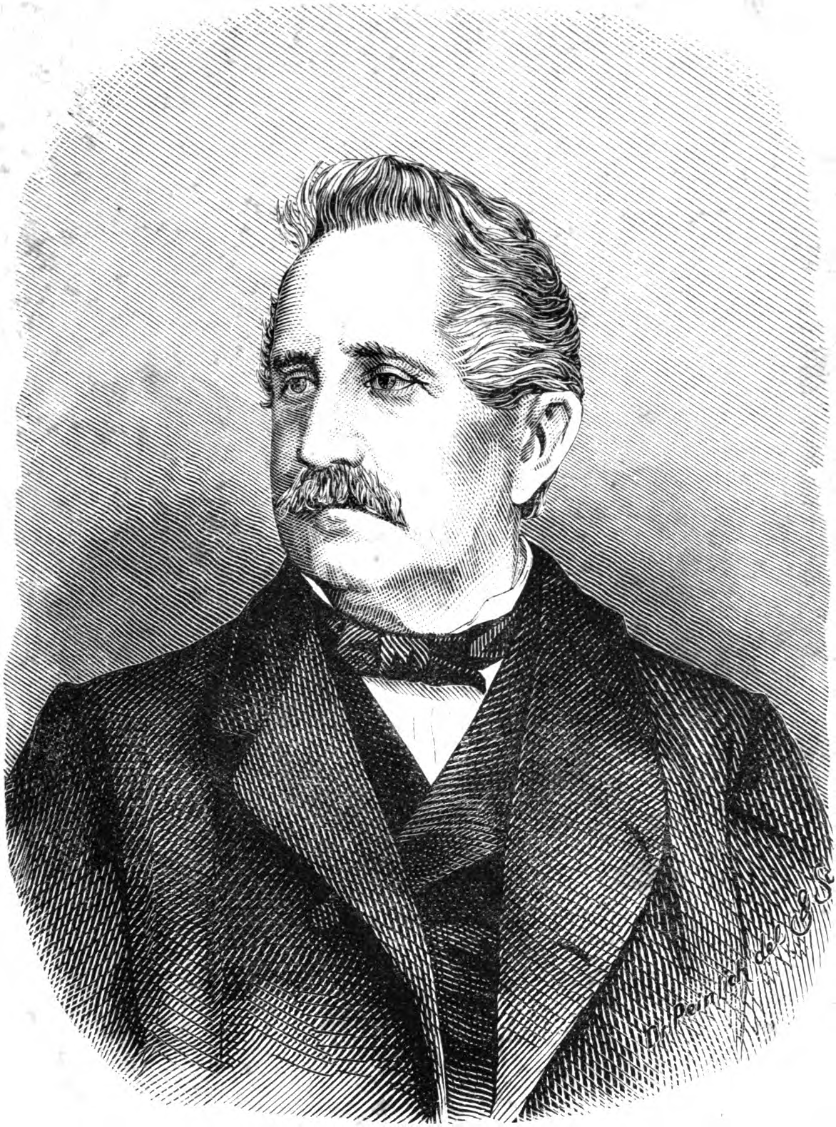 Ljudevit Gaj (1809-1872). Croatian linguist, politician, journalist and writer. Central person of the Croatian national reformation or the Illyrian Movement.